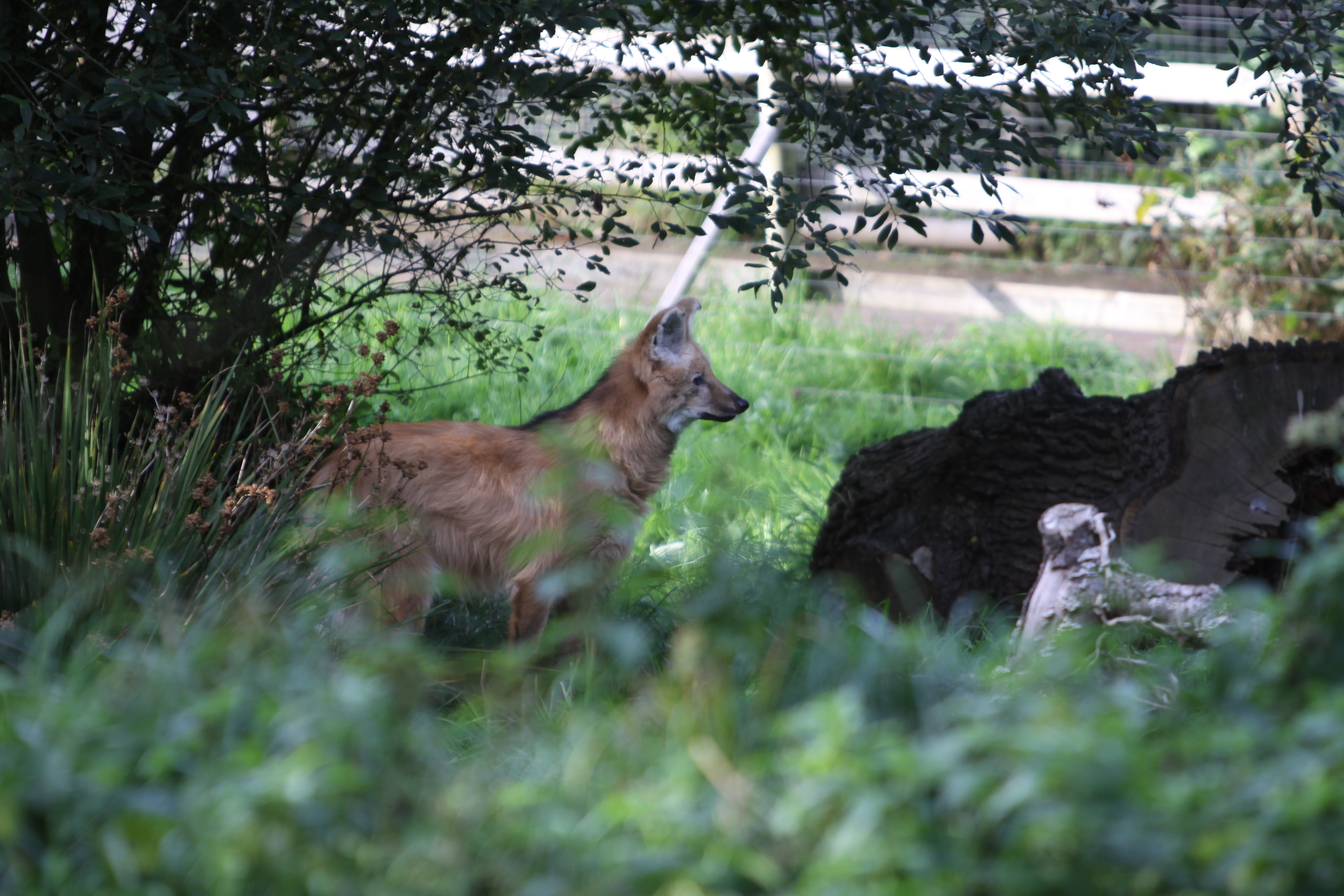 maned wolf (Chrysocyon brachyurus) at Durrell Wildlife Park (Jersey)